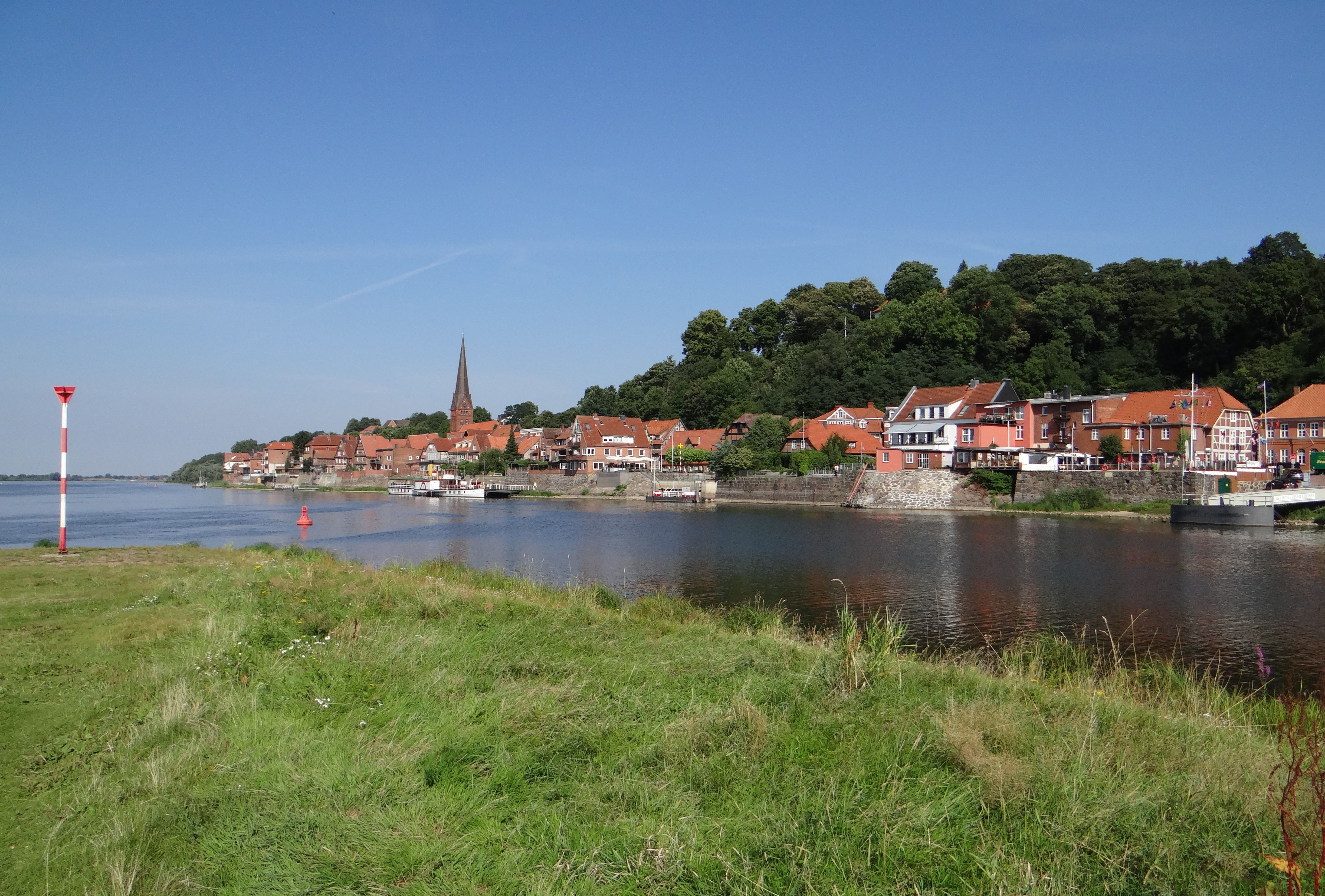 View of Lauenburg/Elbe, Germany.